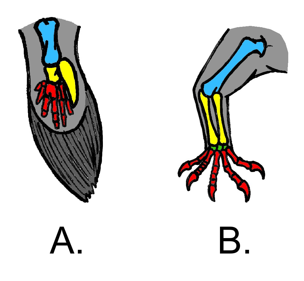 Comparison between the fins of A., Crossopterygiin fishes and the legs of B., tetrapods. Bones which is claimed to correspond each other have the same color.